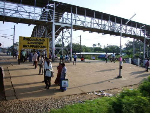 Urapakkam Railway Station